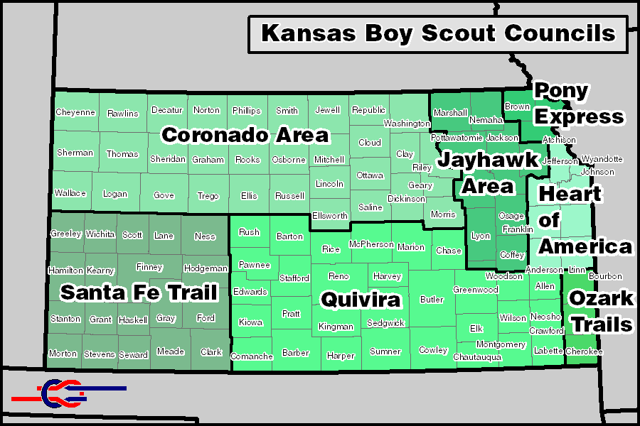 Kansas BSA Councils - Map created using boundary information publicized by the relevant BSA councils. US Census TIGER data used for county and state lines. Council divisions are exact where they coincide with county lines and approximate in other areas. All councils on this map are in the central region.